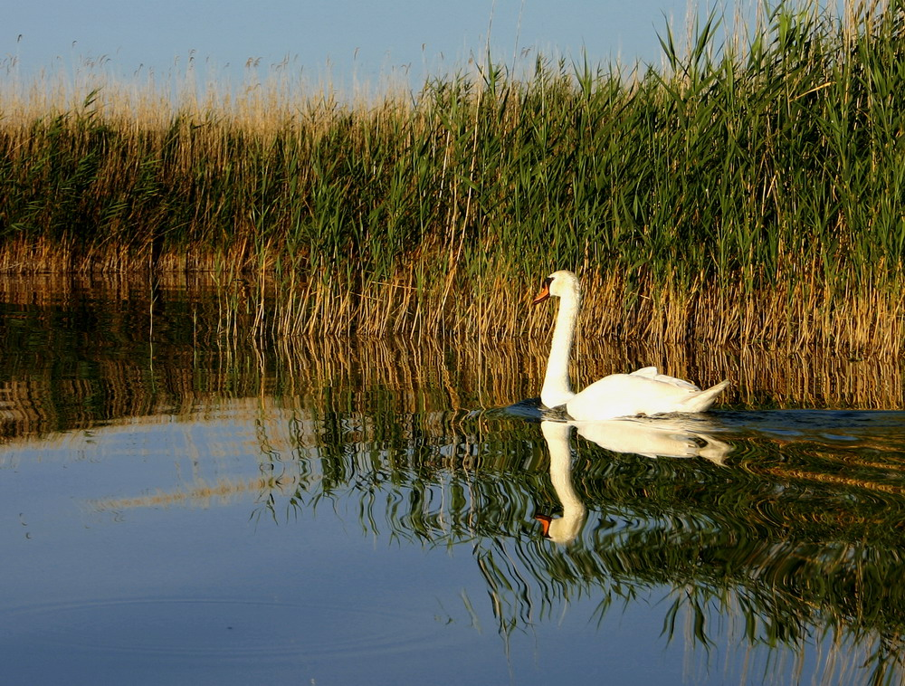 Mute swan (cygnus olor) on Lake Velencei, Hungary